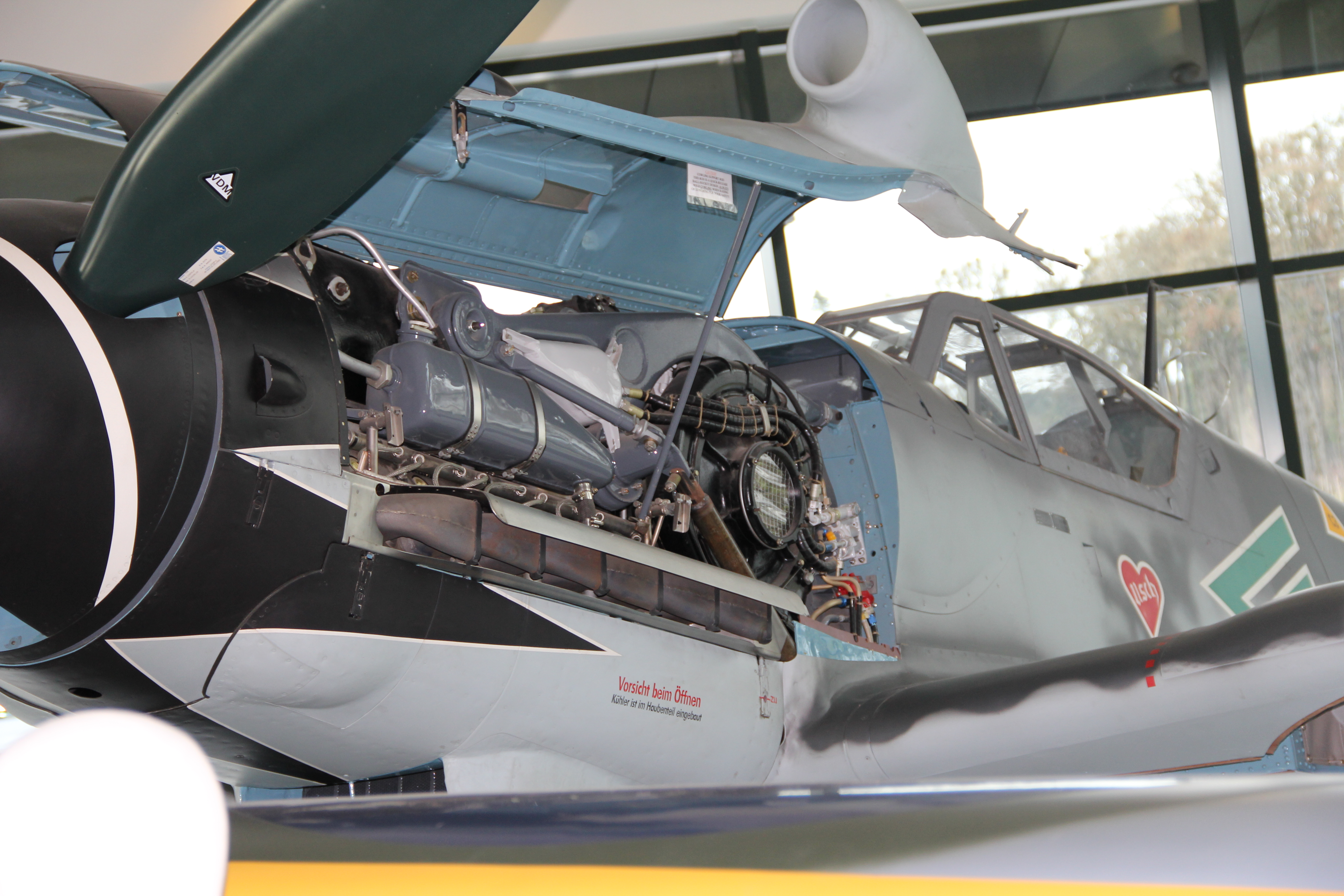 Messerschmitt Bf 109 610937 at the Evergreen Aviation & Space Museum